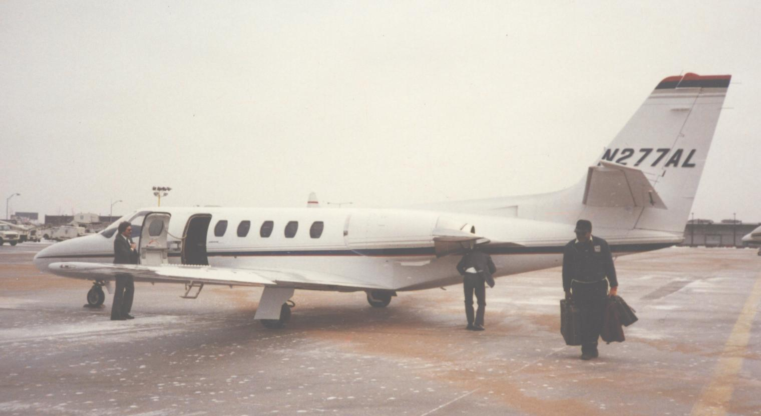 Cessna S550 Citation II N277AL at Chicago O'Hare